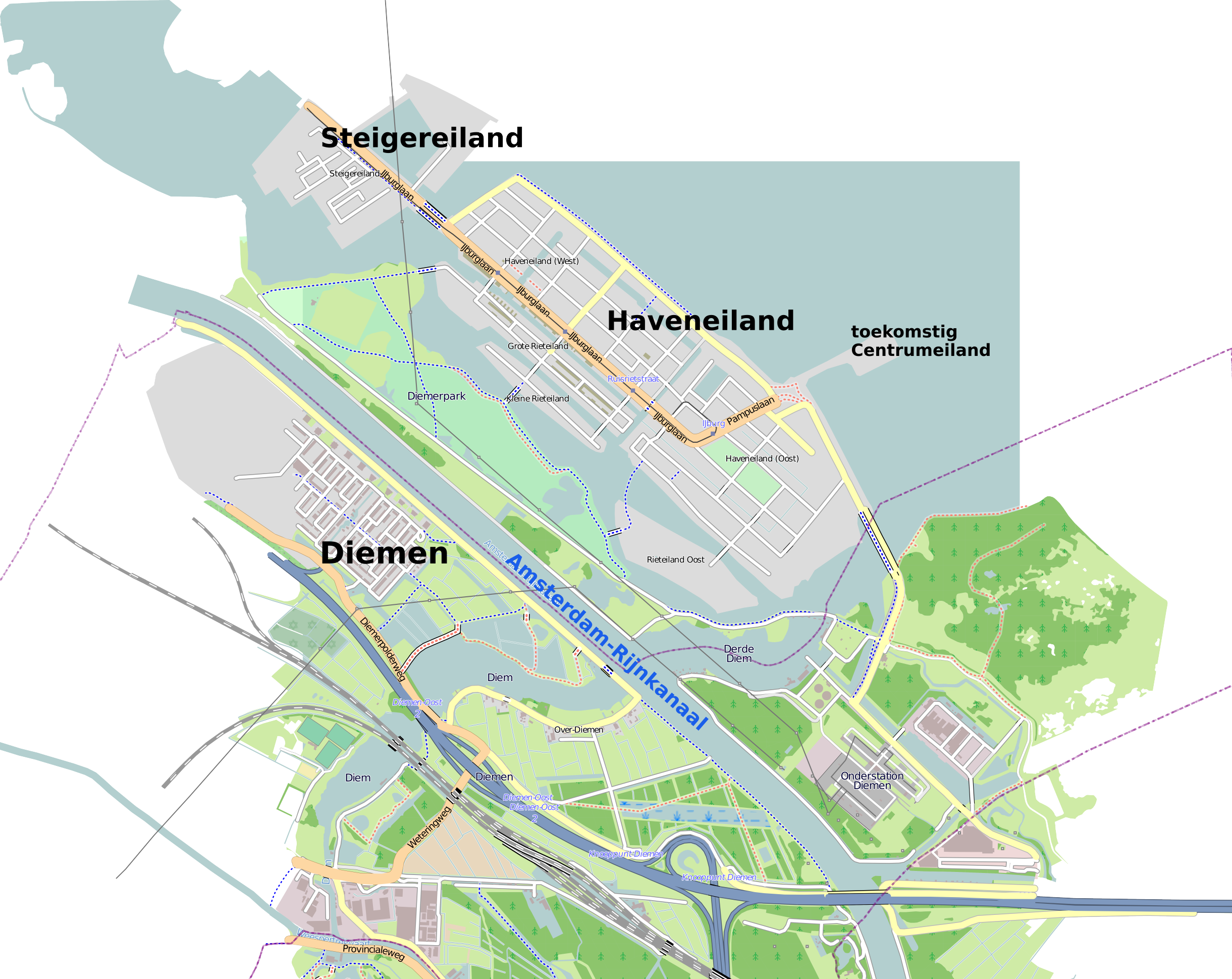 Map of Haveneiland, one of the islands making up the Amsterdam quarter of IJburg